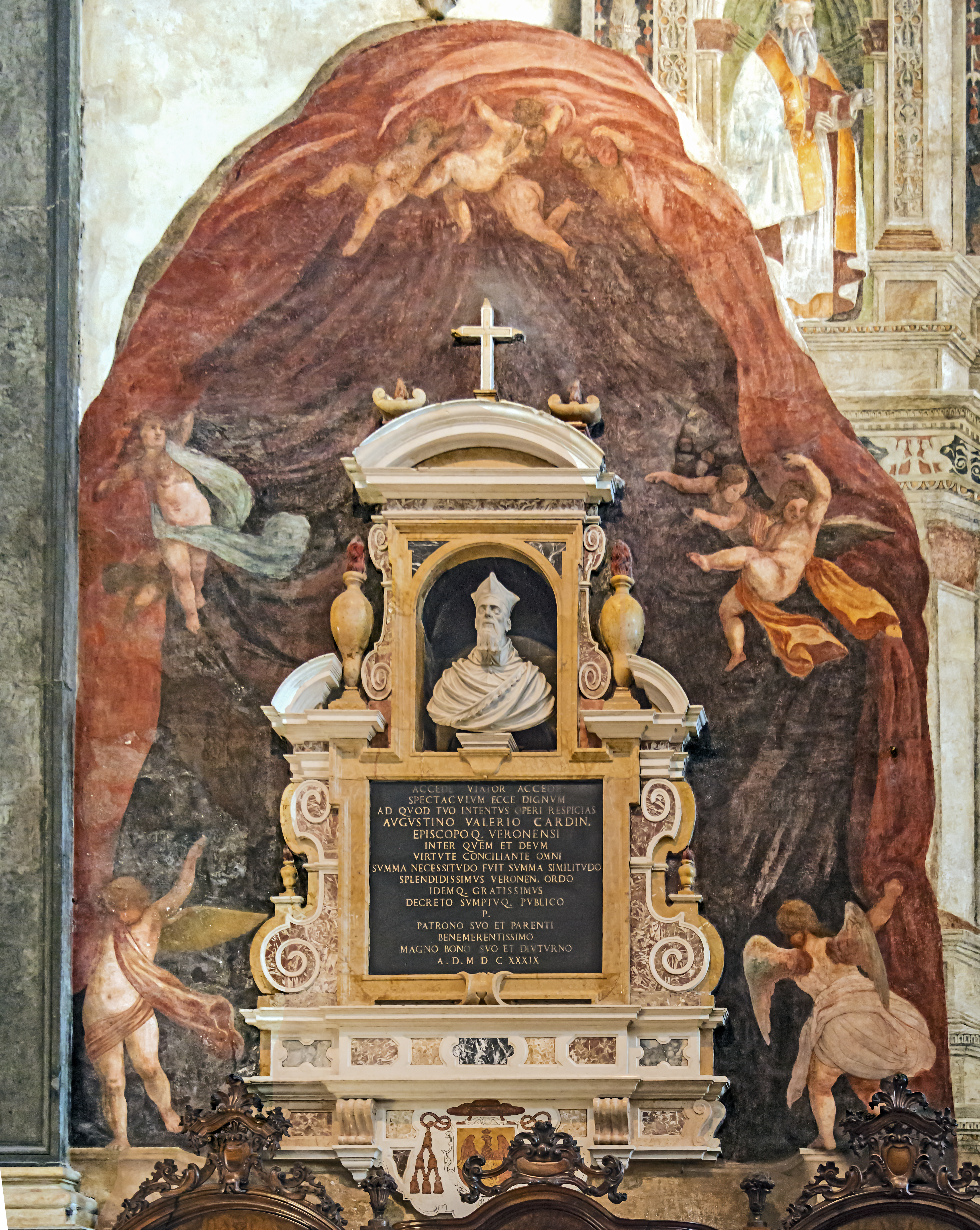 Cathedrale Santa Maria Matricolare. Monument to Agostino Valier